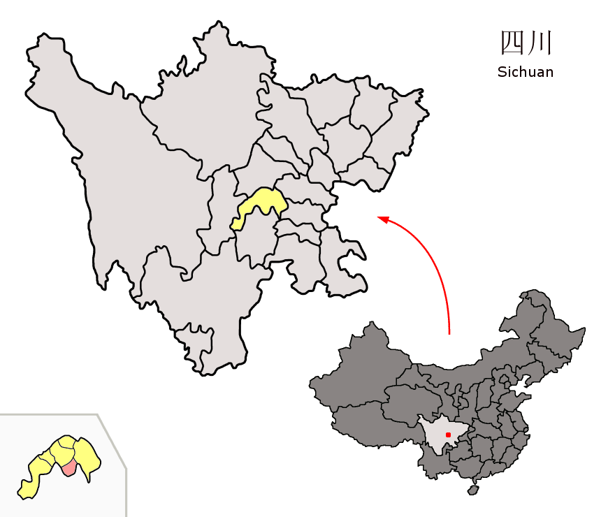 Location of Qingshen County (pink) and Meishan Prefecture (yellow) within Sichuan province of China Map drawn in october 2007 using various sources, mainly : Sichuan province administrative regions GIS data: 1:1M, County level, 1990 Sichuan Counties map from